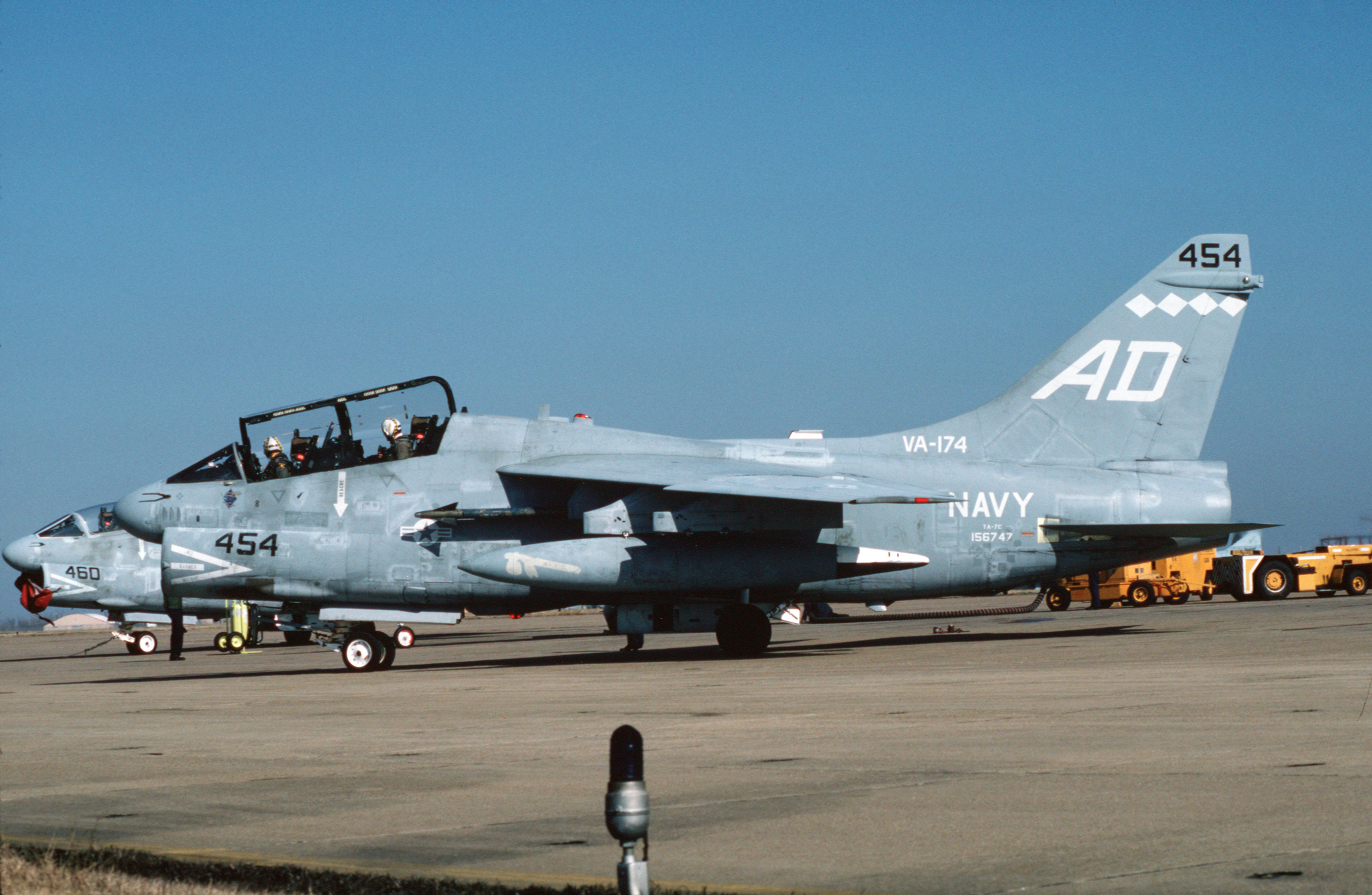 A Vought TA-7C Corsair II (BuNo. 156747) of fleet readiness squadron VA-174 on the flight line at Naval Air Sation Dallas (Texas, USA) on 1 Feb 1988.